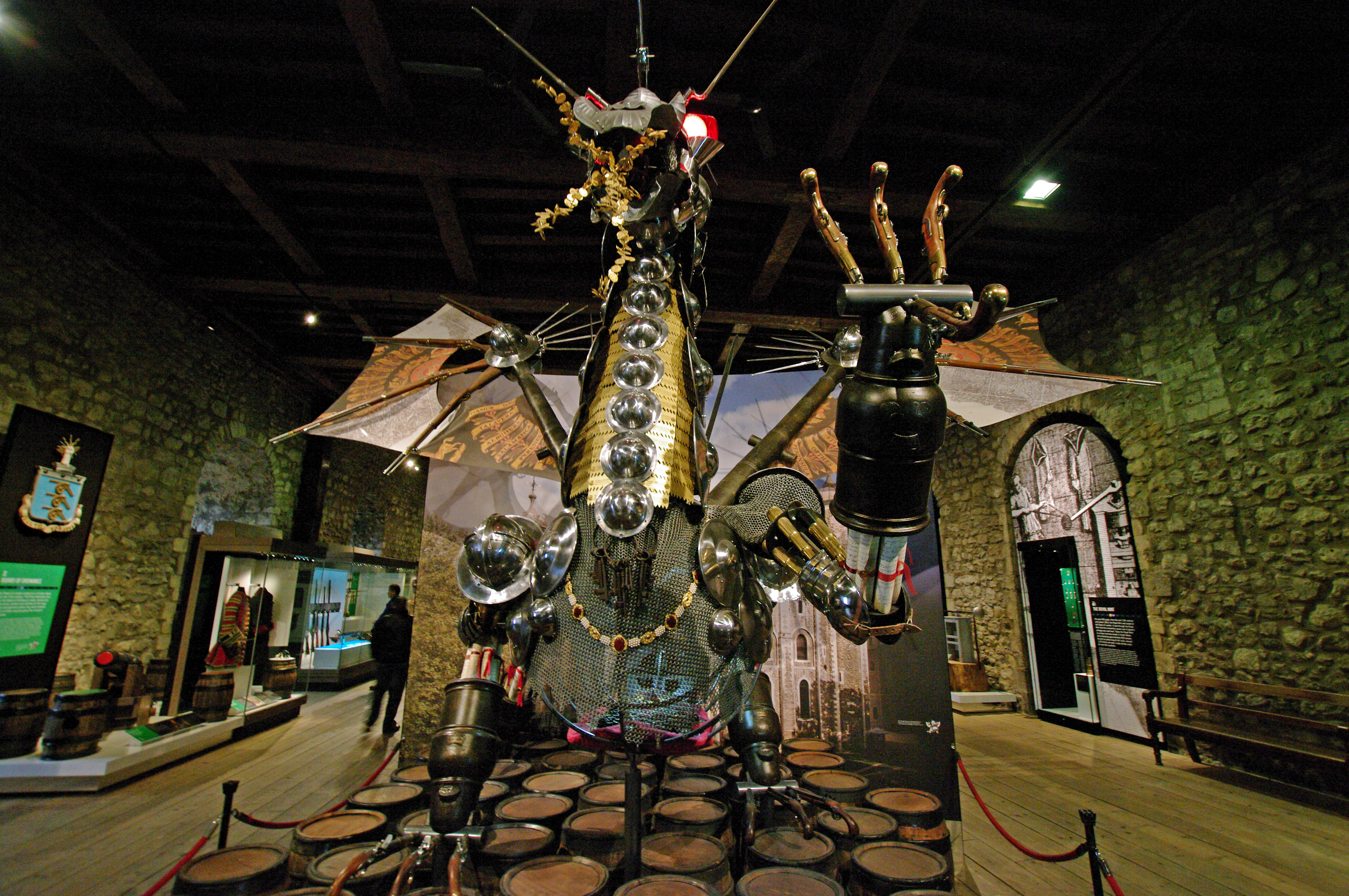 Tower of London. Armouries exhibition dragon.